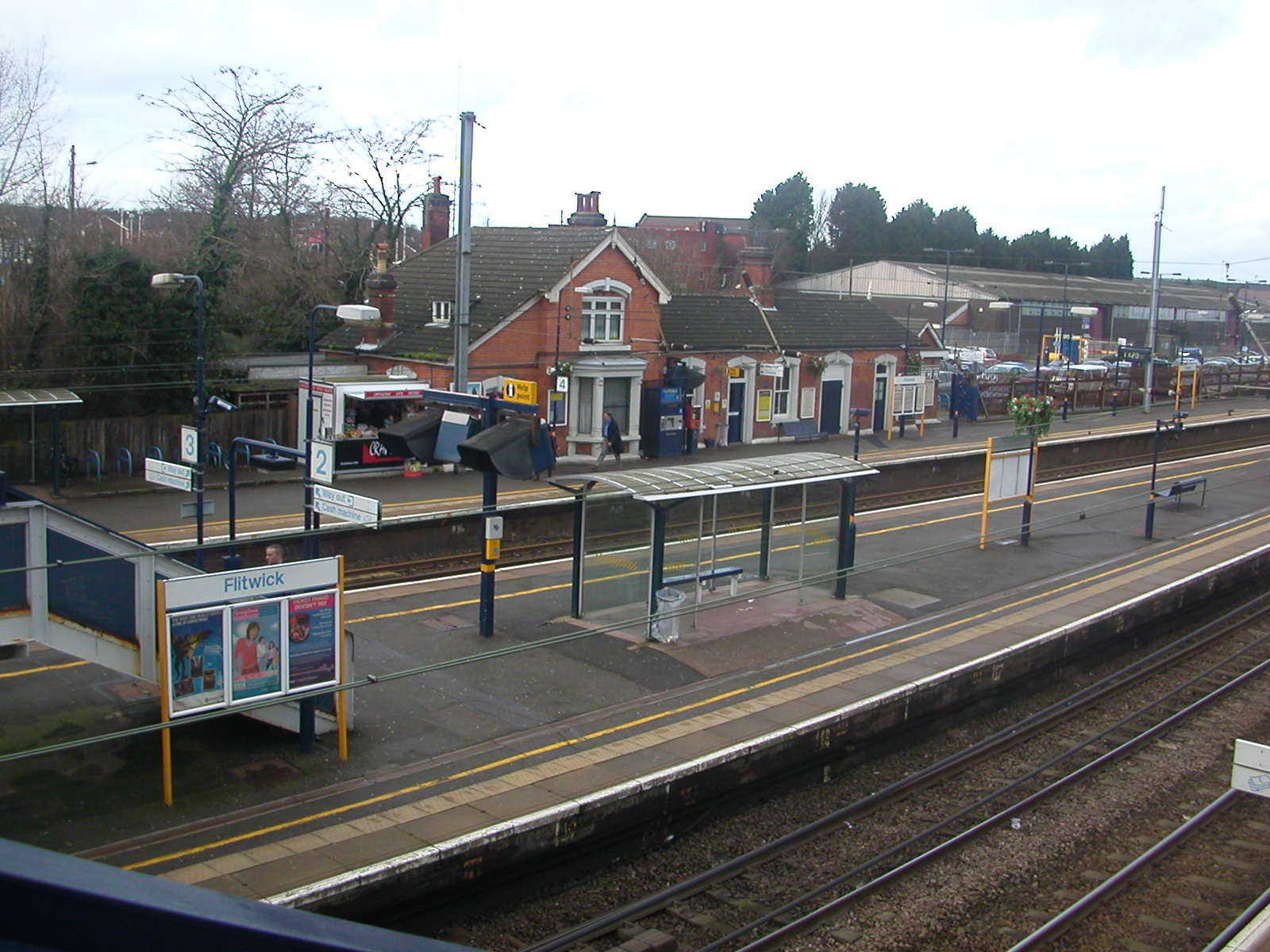 View across Flitwick station towards the main building on the Down side platform. Photographed on 13th January 2007.